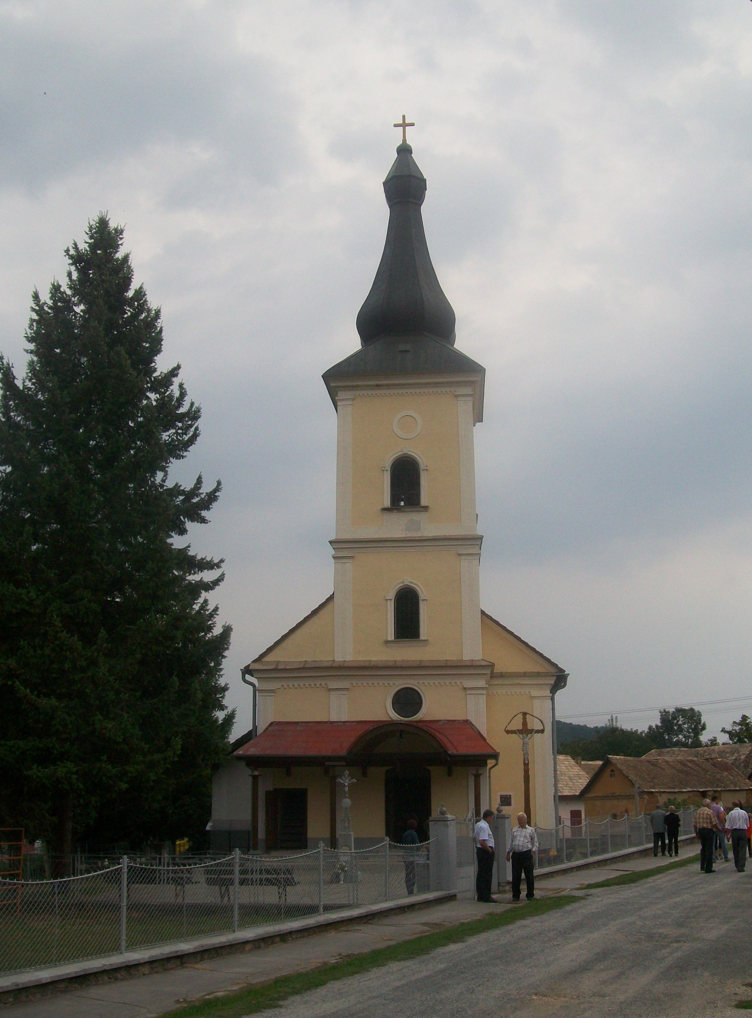 Roman Catholic Church of St. Francis in Ružiná